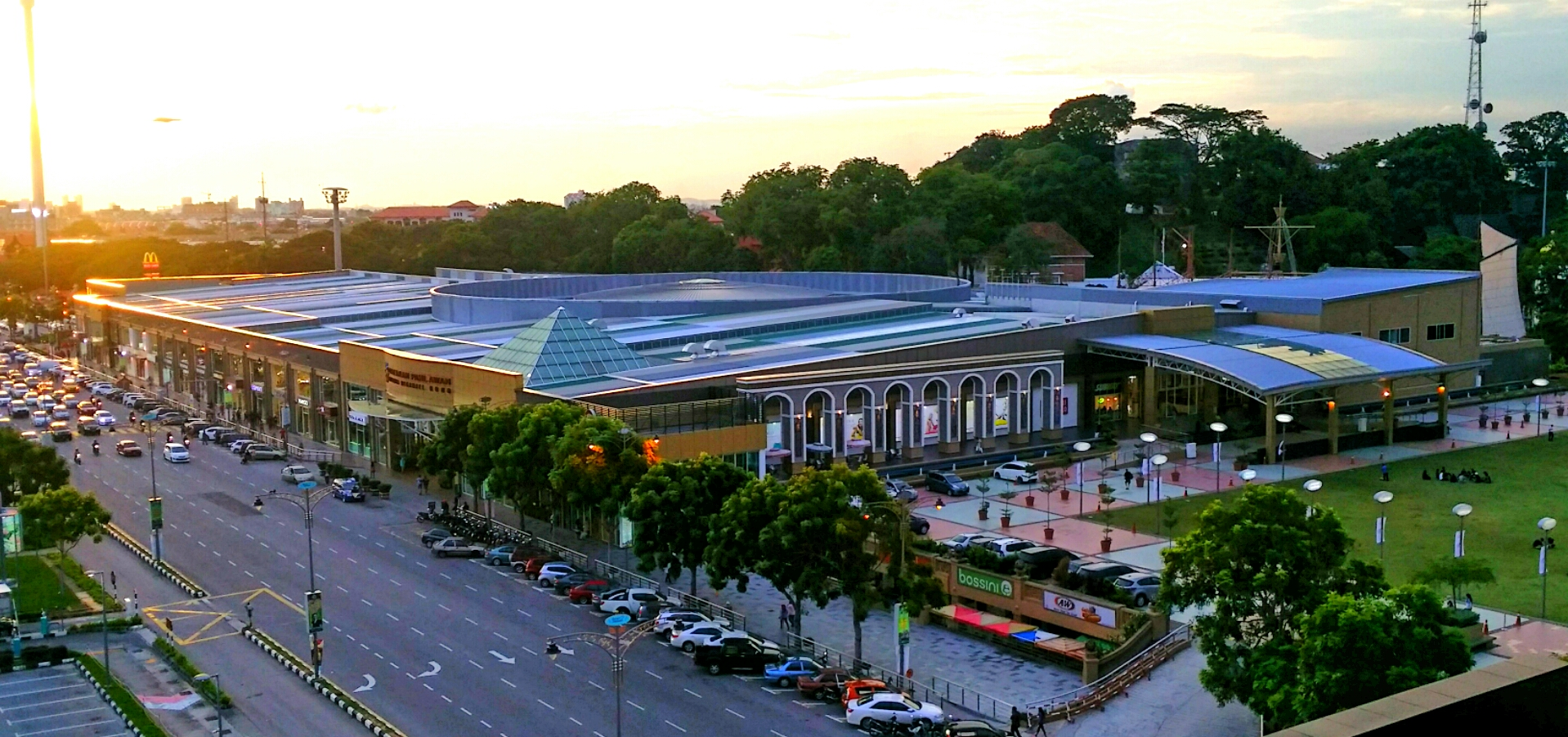 An evening shot of Dataran Pahlawan Melaka Megamall